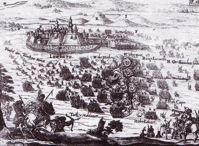 Siege of Levice, "K" István Koháry´s army, (1664), "H" Souches